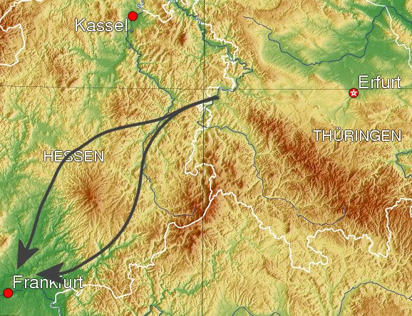 View of Germany. Arrows indicate theoretical vectors of attack via the Fulda Gap. Southern vector via town of Fulda, Northern via Bad Hersfeld, both are part of the Fulda Gap.